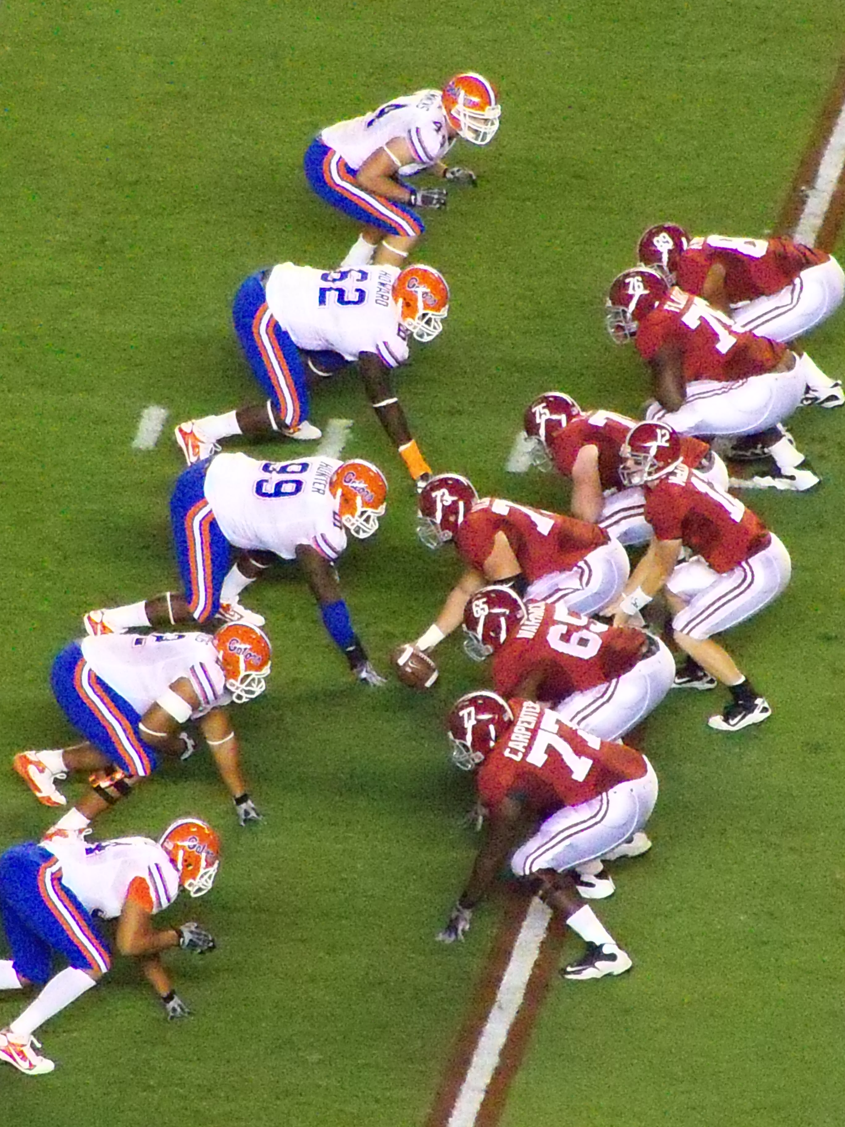 2010 Alabama-Florida college-football game